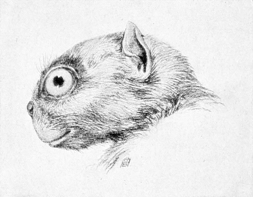 Life restoration of Tetonius (formerly Anaptomorphus) homunculus from W.B. Scott's (1858–1947) A History of Land Mammals in the Western Hemisphere. New York: The Macmillan Company.